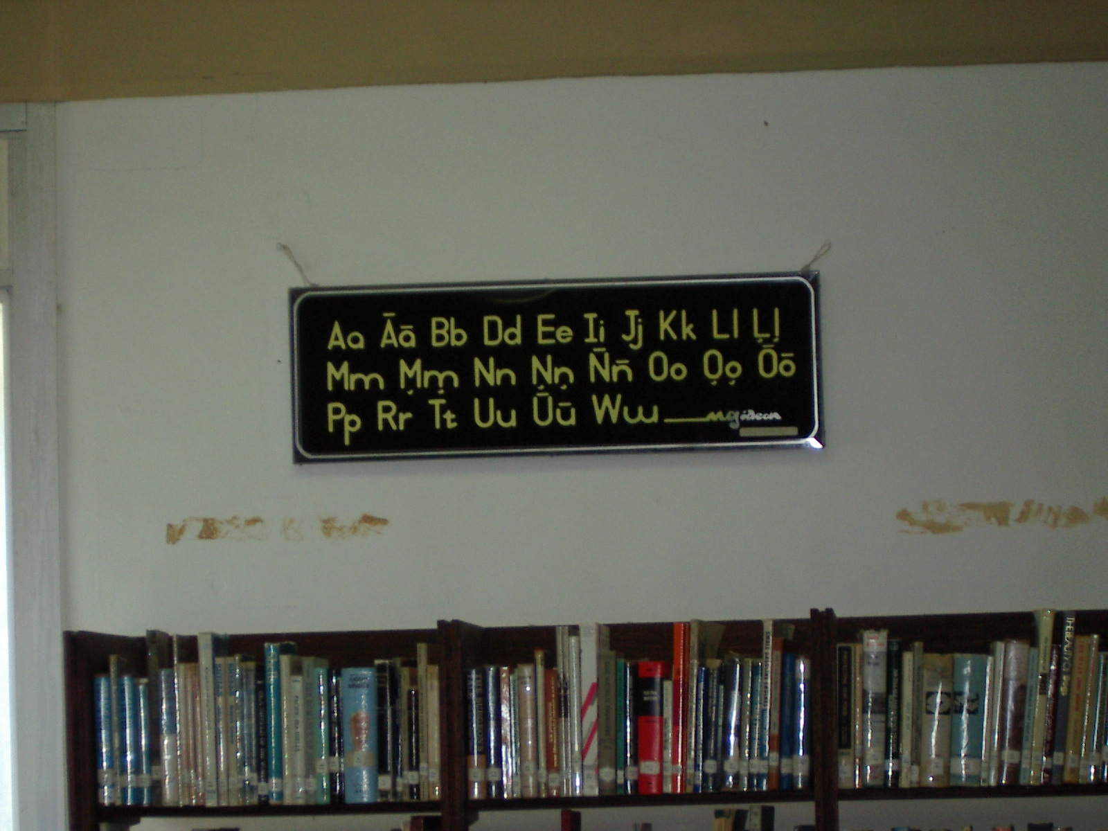 Marshallese alphabet in a public library in DUD (Majuro)